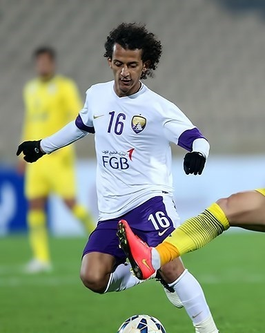 Mohamed Abdulrahman playing against Naft Tehran, 2015 AFC Asian Cup